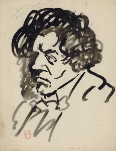 Ludwig van Beethoven by Enrico Caruso (1872-1921). Indian ink, 24 x 16 cm.